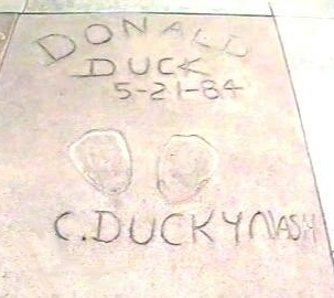 Footprints of Donald Duck in the Grauman's Chinese Theatre in Hollywood